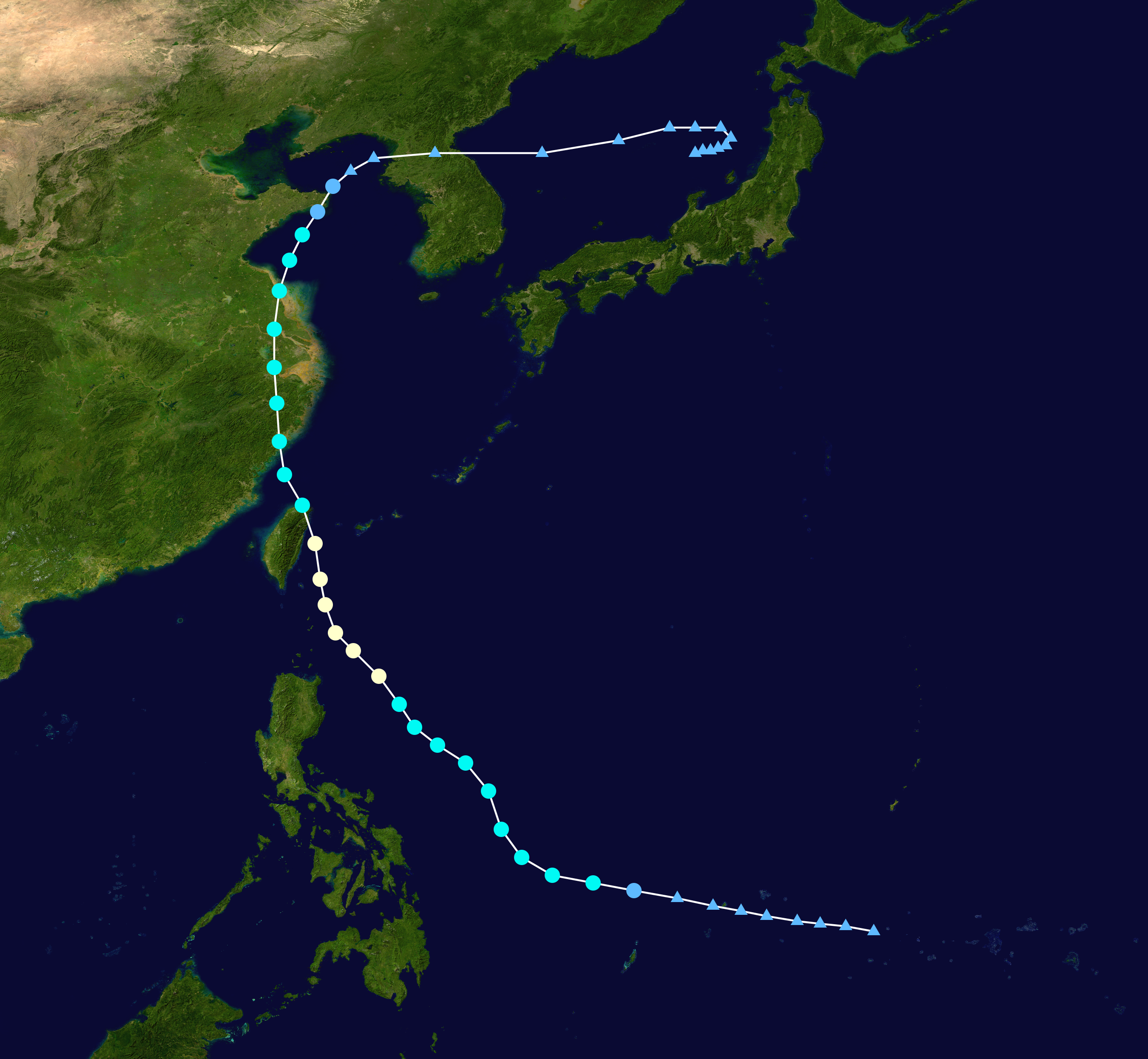 Typhoon Alex 1987 track. Uses the color scheme from the Saffir-Simpson Hurricane Scale.